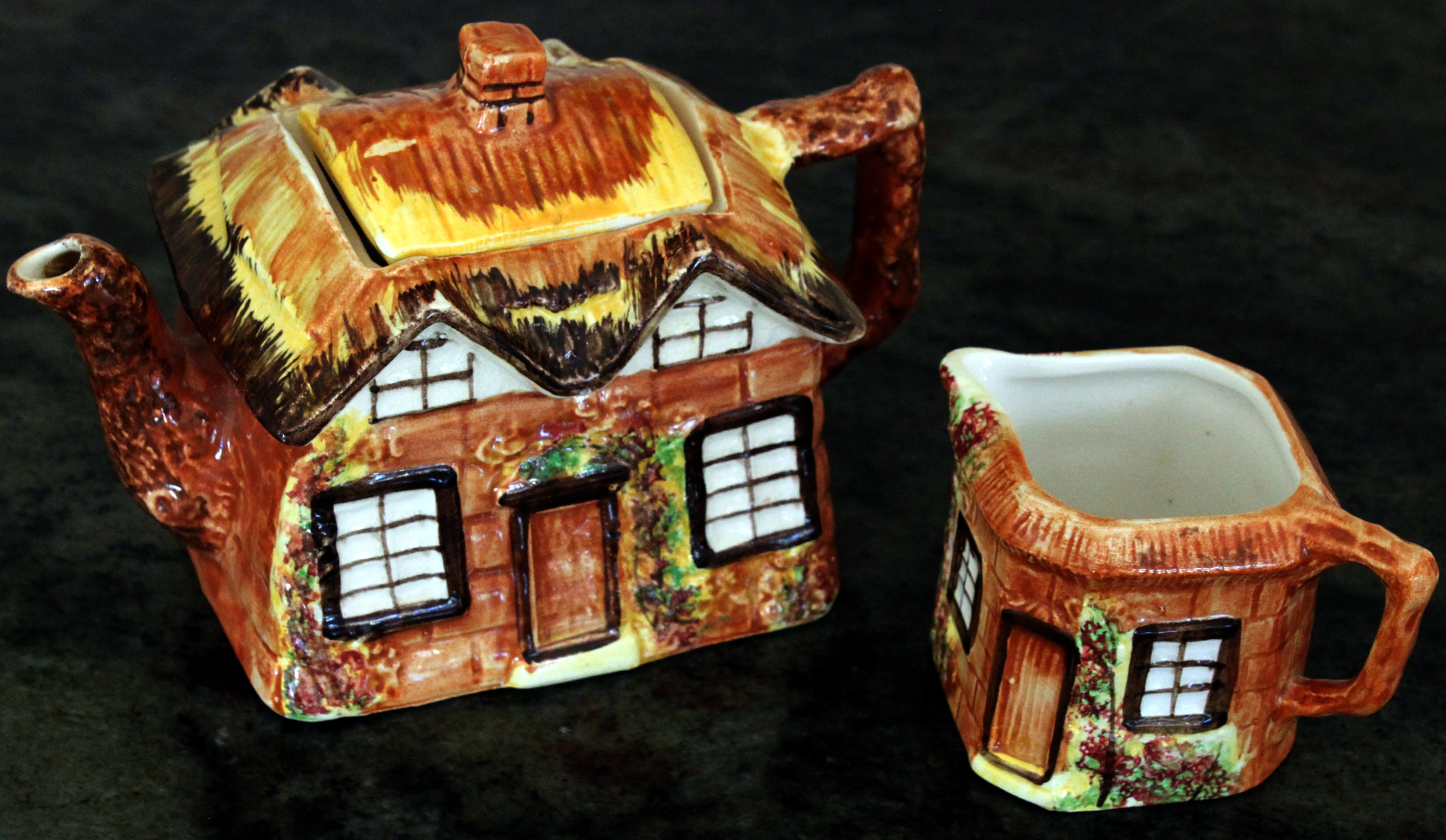 Kitsch. "Cottage Ware" tea pot by Price Kensington. Made in England.